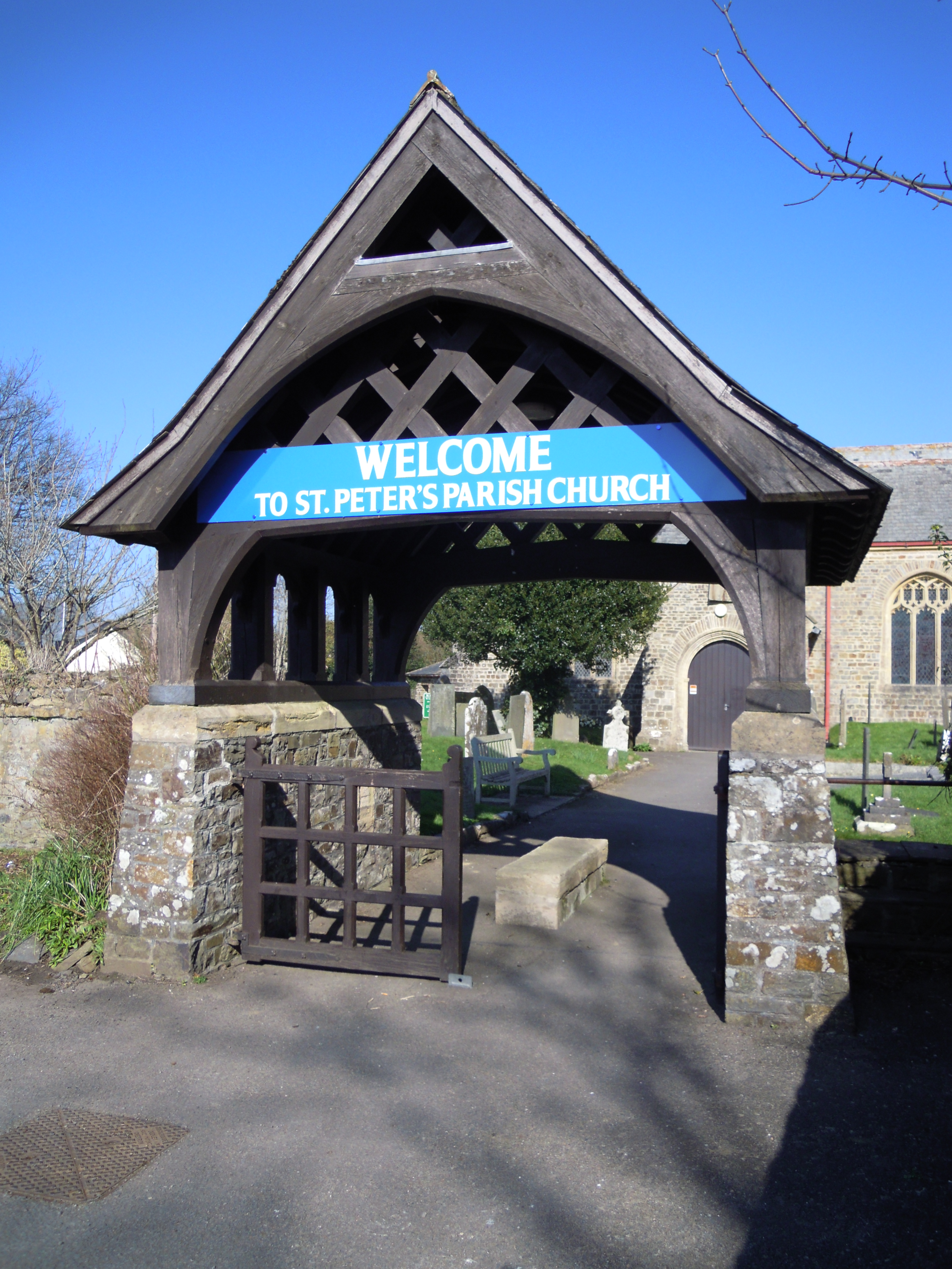 The lychgate (c1867) by Sir Gilbert Scott at the Church of St Peter in Fremington in Barnstaple, Devon